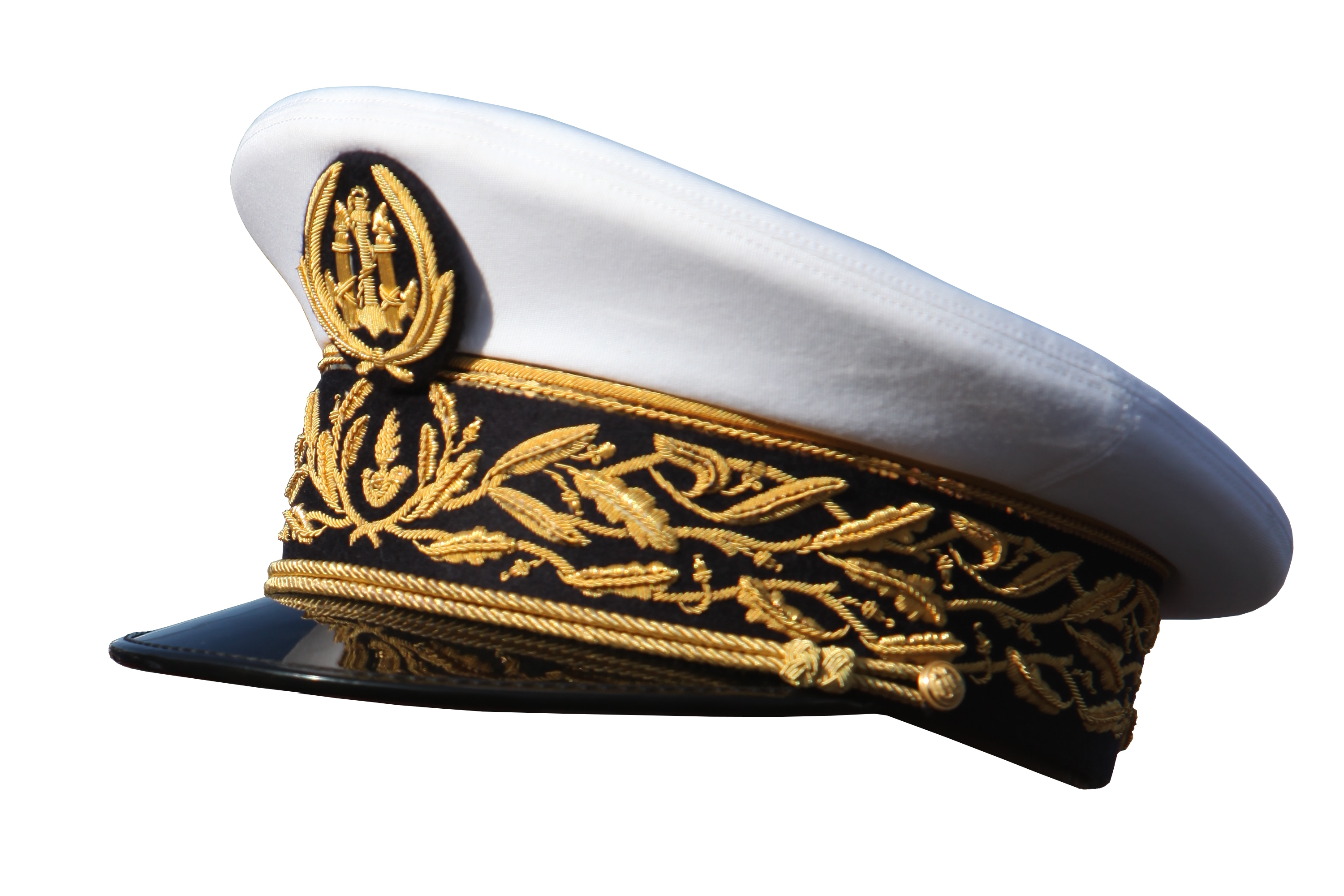 Cap of a French general officer of the custom services